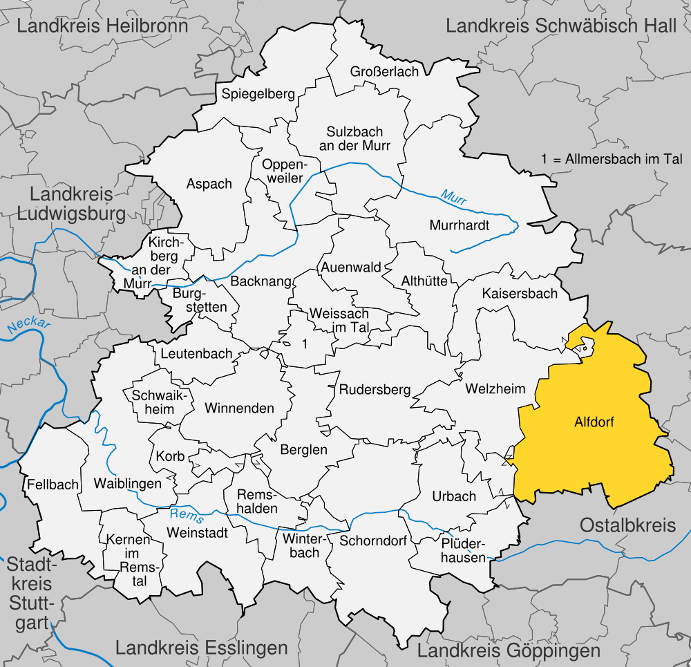 position of Alfdorf within the Rems-Murr-Kreis, Baden-Württemberg, Germany